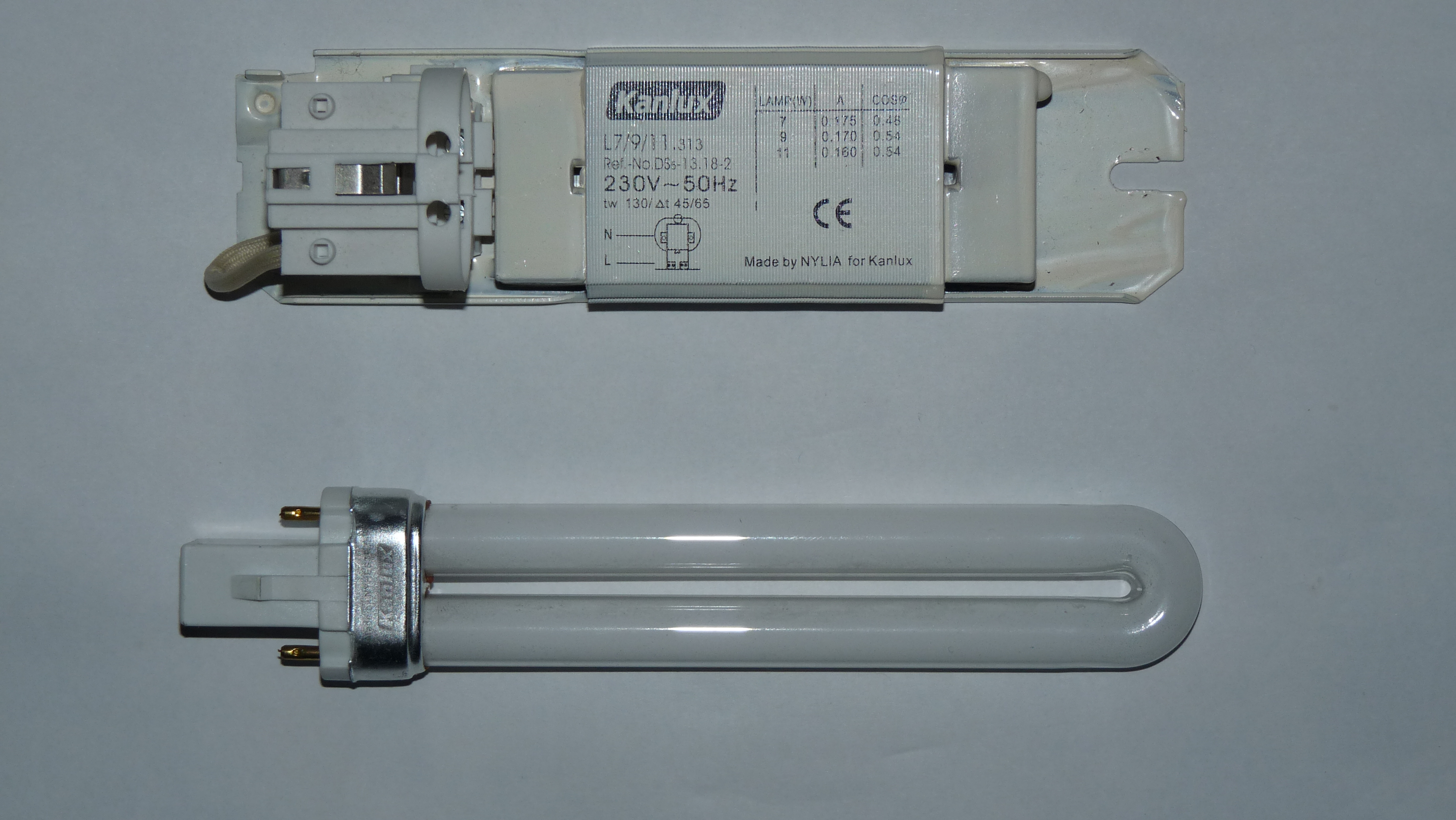 G23 Kanlux 9W light bulb with coil ballast